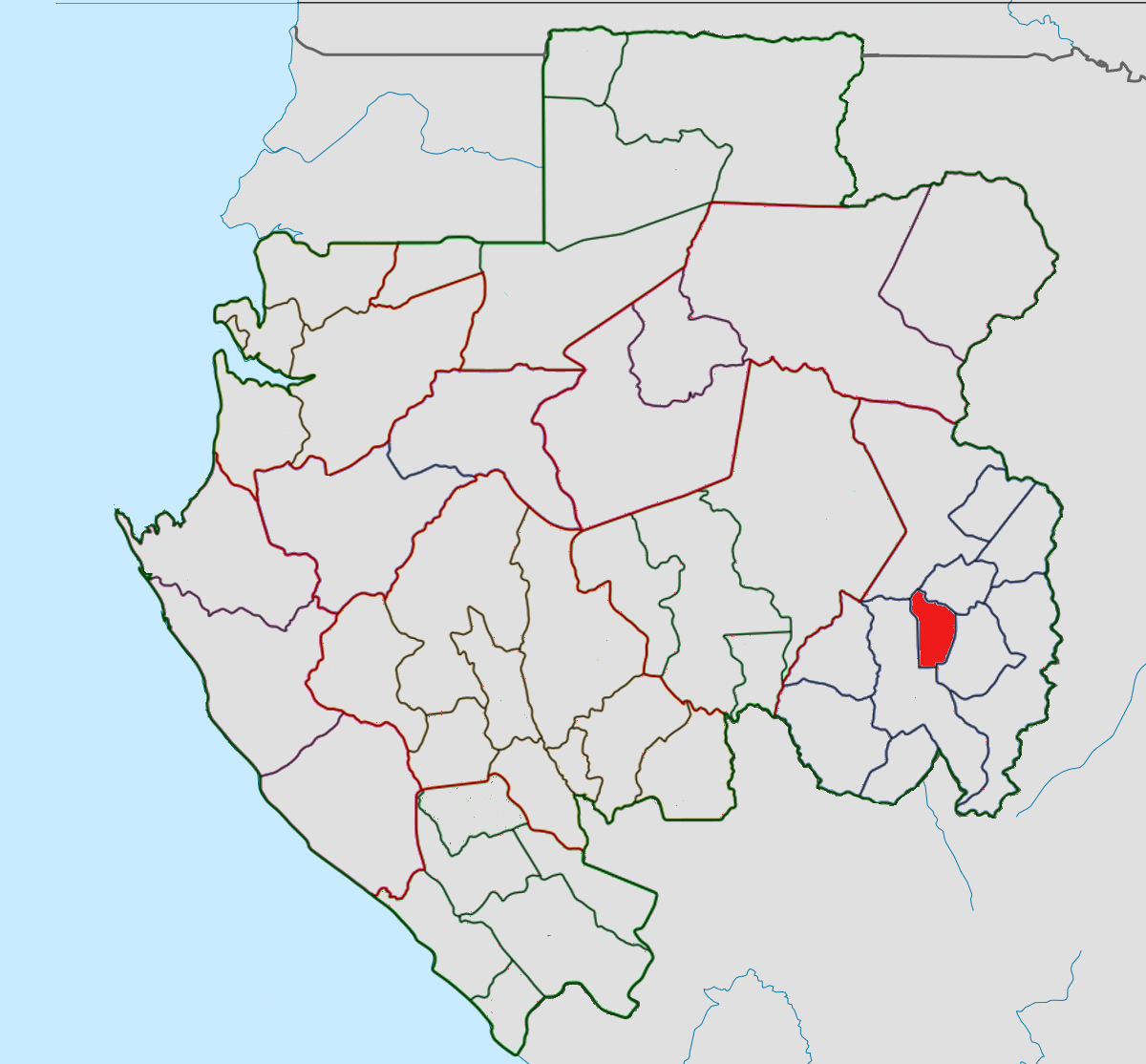 map of lékabi-léwolo